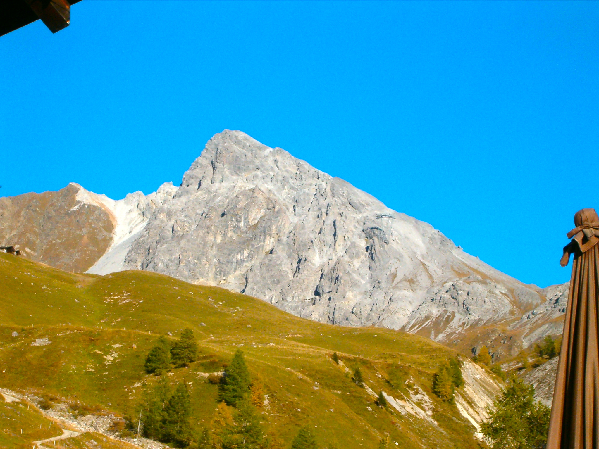 Schiahorn, seen from Restaurant Heimeli at Sapün/Langwies, Switzerland